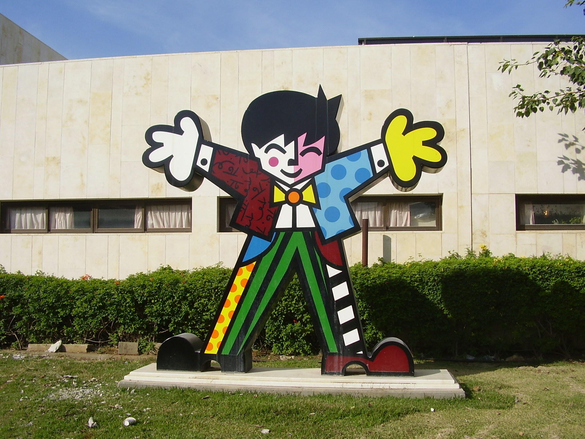 "Wellcome" by Romero Britto in the sculpture garden at Sheba Hospital